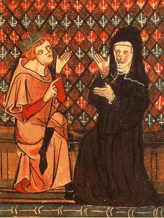 From Image:Abelard.heloise.gif